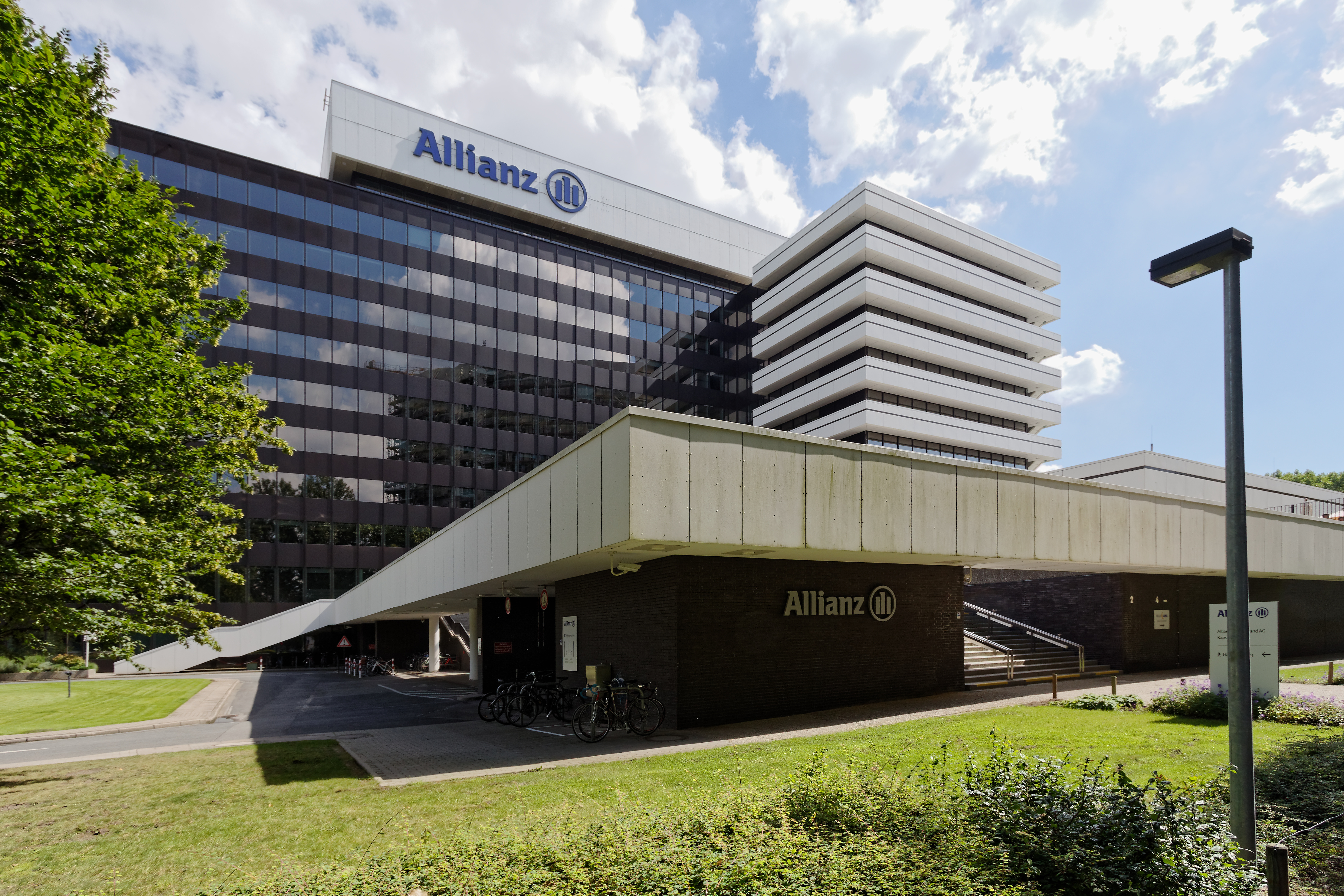 Hamburg, City Nord, office building Kapstadtring 2 / 4